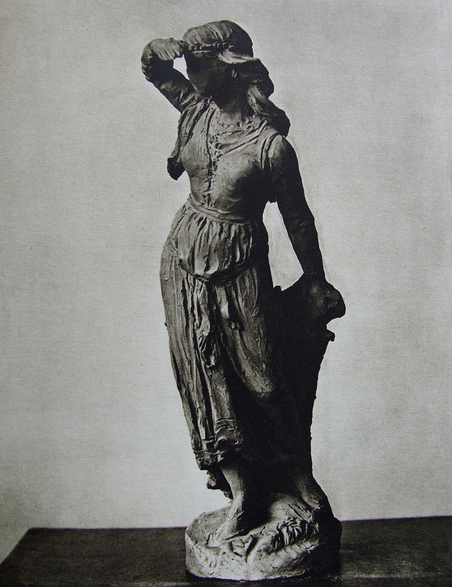 Aino, terracotta draft, in Ateneum art museum